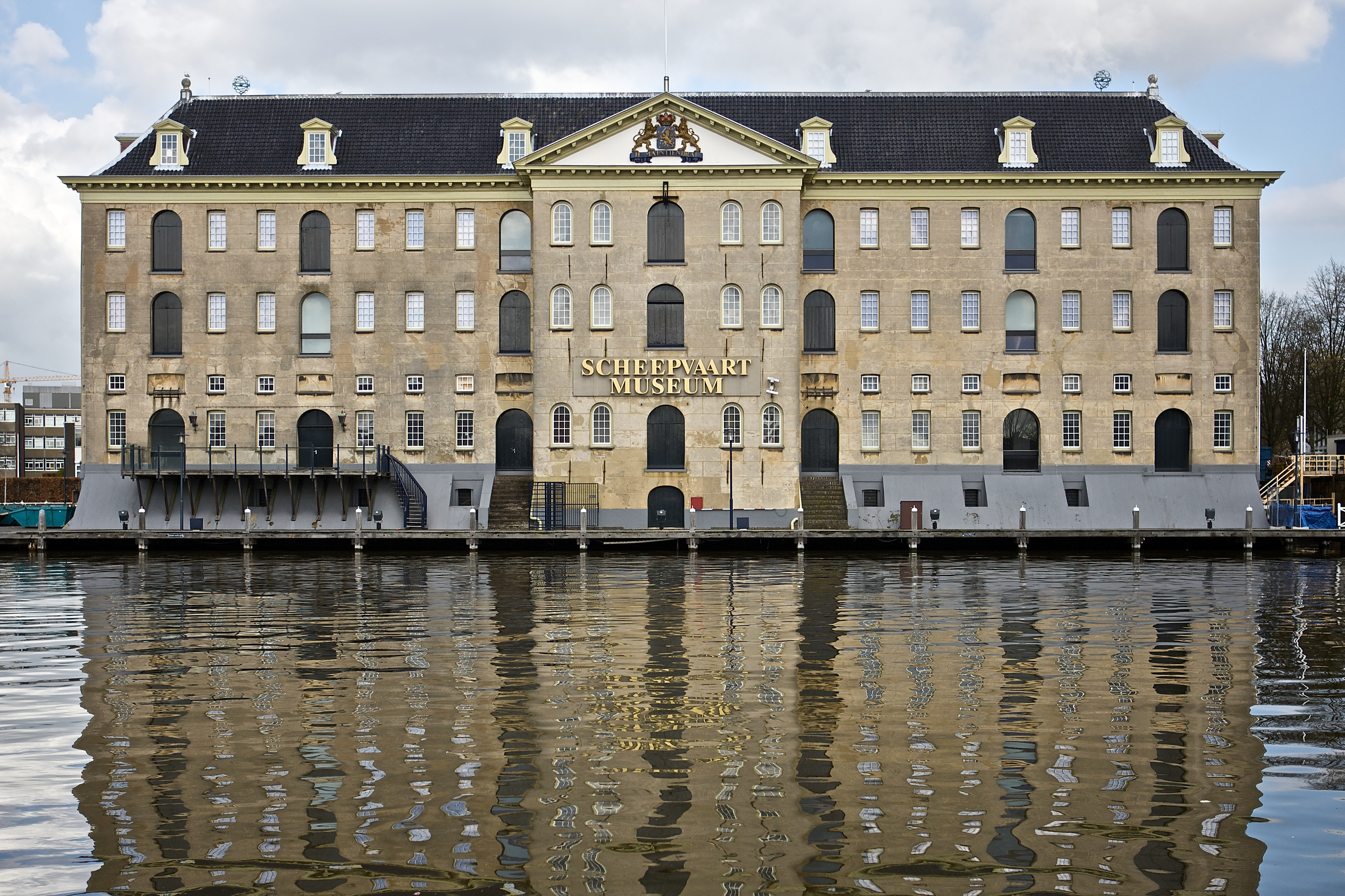 The Nederlands Scheepvaartmuseum (Netherlands Maritime Museum) is a museum in Amsterdam, The Netherlands. The museum is housed in a former naval storehouse, 's Lands Zeemagazijn or Admiraliteits Magazijn, constructed in 1656. The museum moved to this building in 1973. The museum is dedicated to maritime history and contains many artifacts associated with shipping and sailing. The collection contains, among other things, paintings, scale models, weapons and world maps. The paintings depict Dutch naval officers such as Michiel de Ruyter and impressive historical sea battles. The map collection includes works by famed 17th century cartographers Willem Blaeu and his son Joan Blaeu. The museum also has a surviving copy of the first edition of Maximilian Transylvanus' work, De Moluccis Insulis, the first to describe Ferdinand Magellan's voyage around the world. Moored outside the museum is a replica of the Amsterdam, an 18th century ship which sailed between the Netherlands and the East Indies. The replica was built in the years 1985-1990. In January 2007, the museum will close for about two years to undergo a major renovation. From wikipedia article.